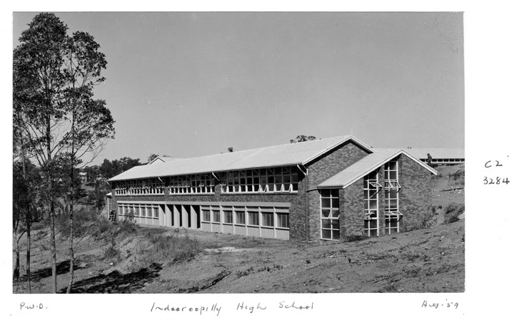 Indooroopilly State High School - Brisbane. (Original photo caption makes reference to Public Works Department)